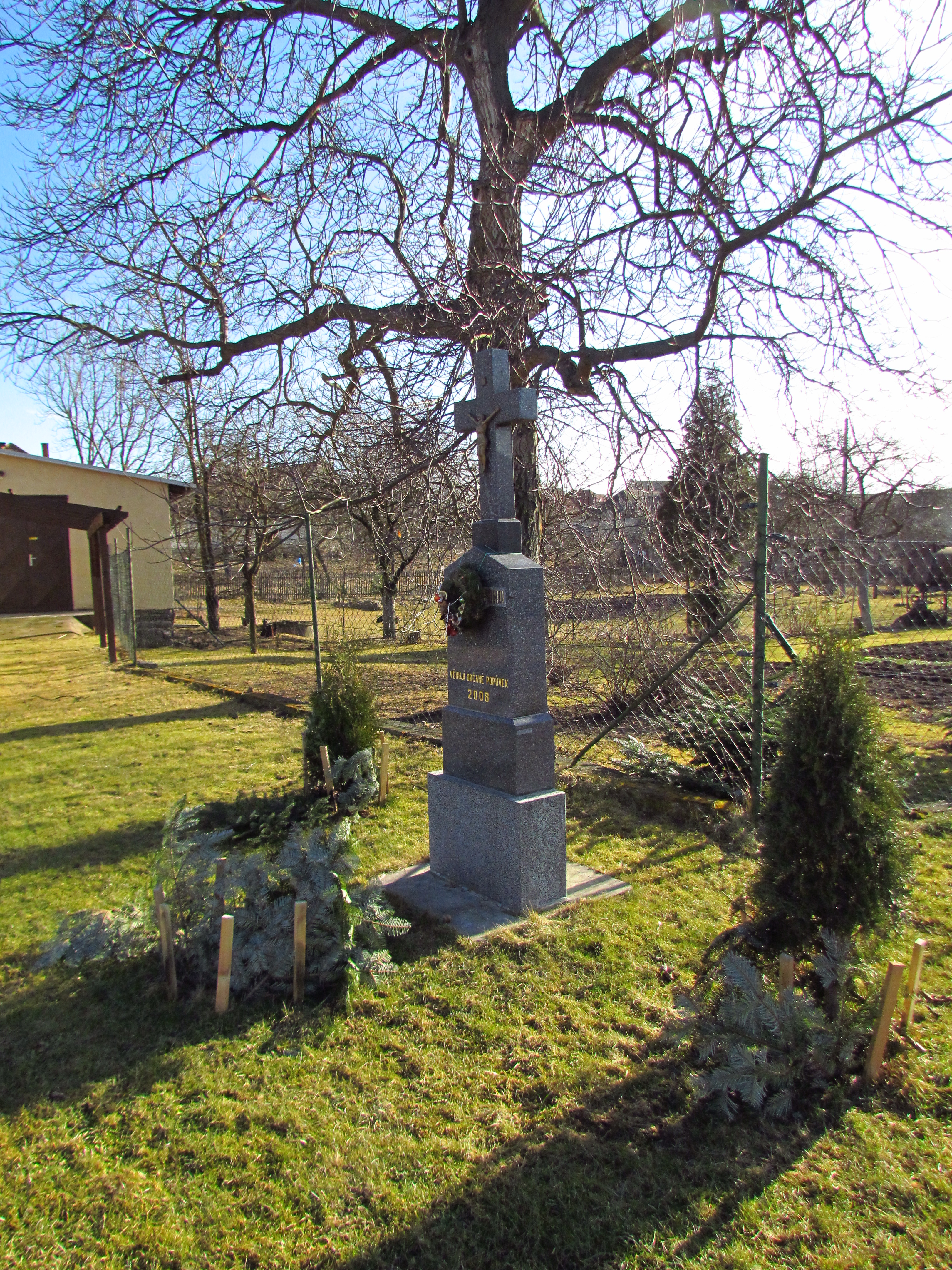 Fire fighting building in Popůvky, Třebíč District.